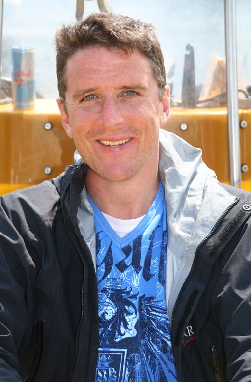 Welsh nature observer and television presenter Iolo WilliamsCymraeg: Iolo Williams